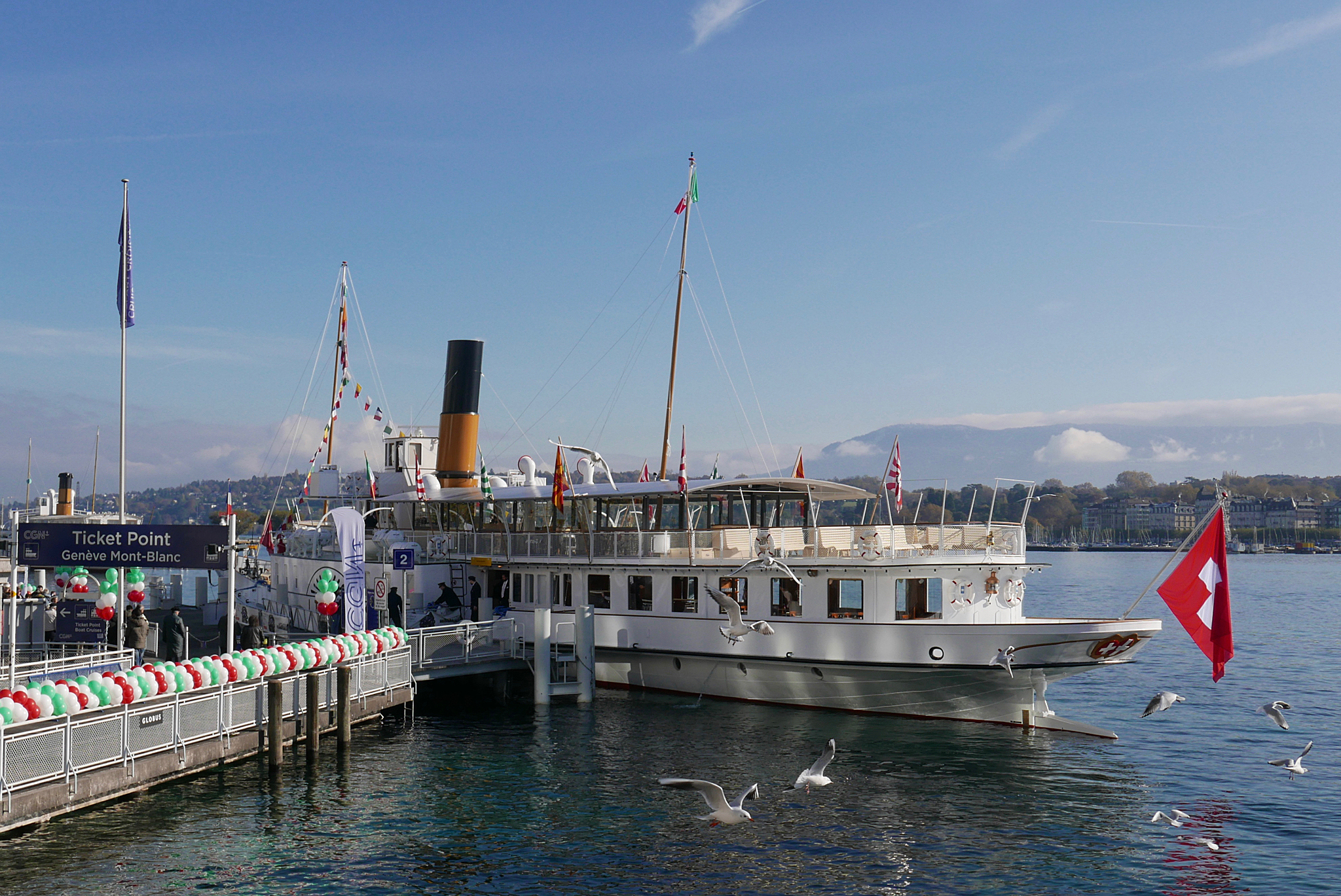 MS "Italie" at Genève-Mt-Blanc.